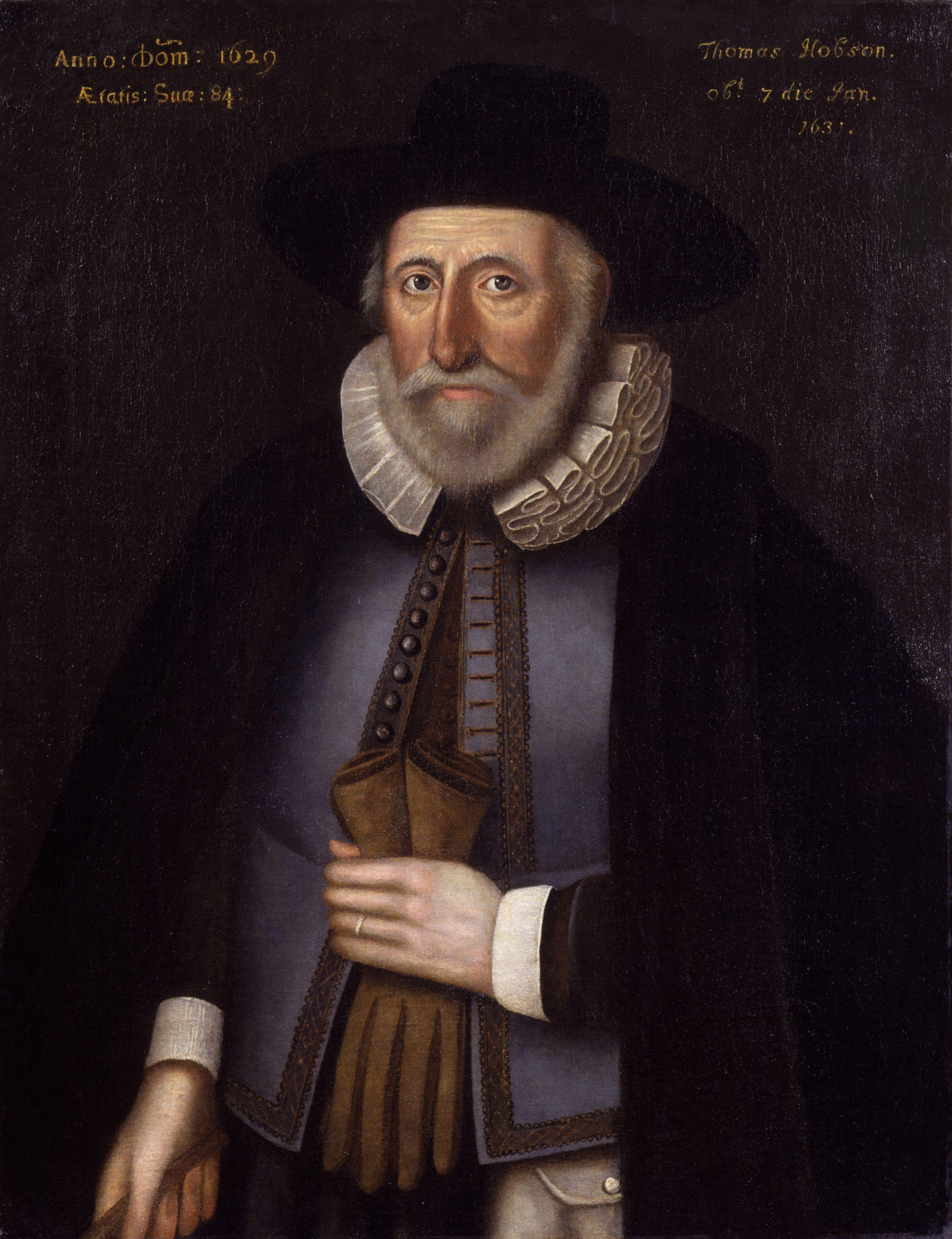 All images in this batch are listed as "unknown author" by the NPG, who is diligent in researching authors, and was donated to the NPG before 1939 according to their website.